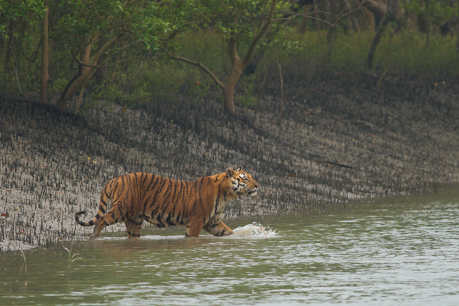 The tigers wade through the shallow canals in Sundarban Tiger Reserve, West Bengal, India.